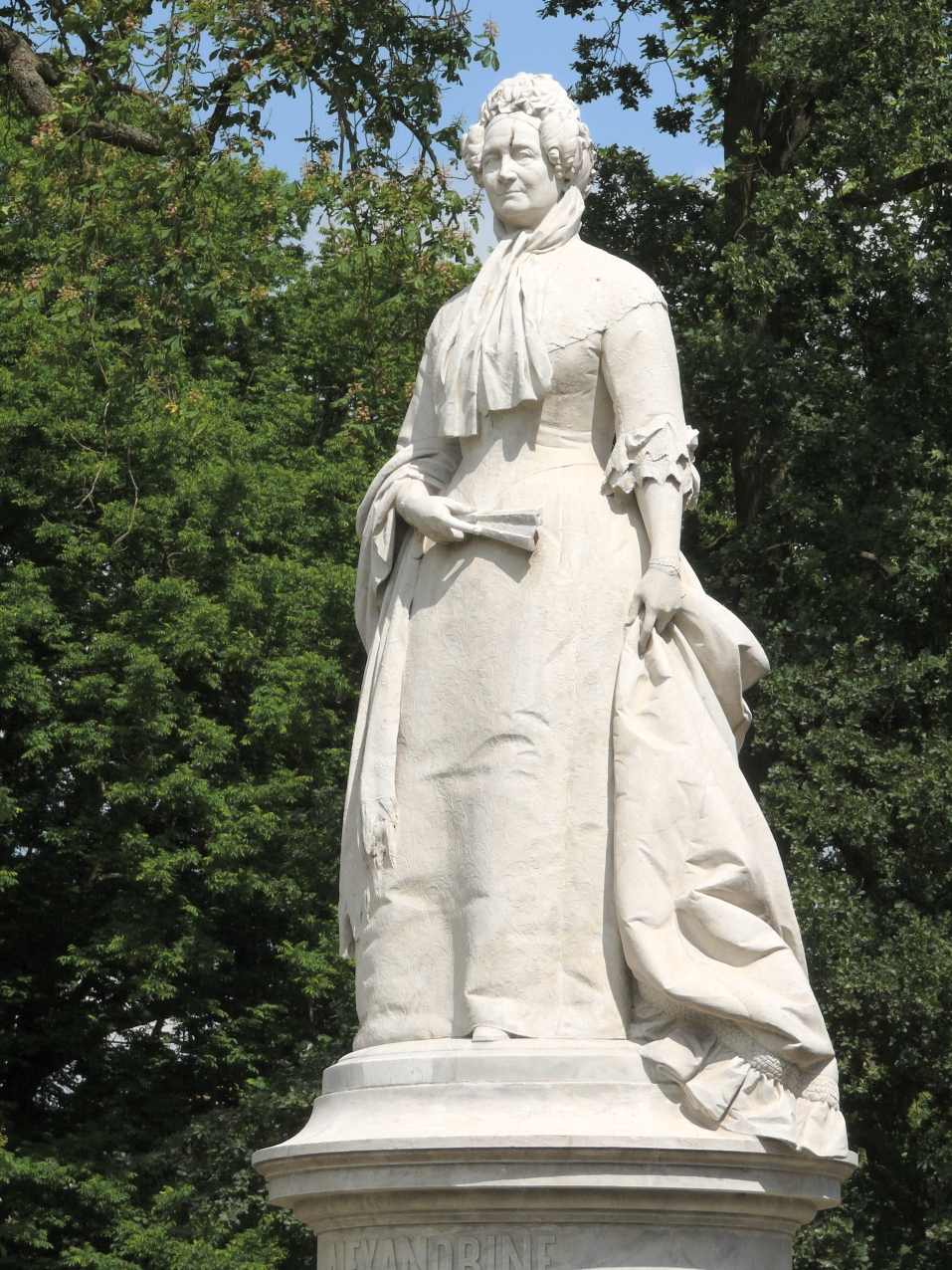 Memorial to Grand-Dutchess Alexandrine of Mecklenburg-Schwerin in Schwerin, sculpted by Hugo Berwald in 1907